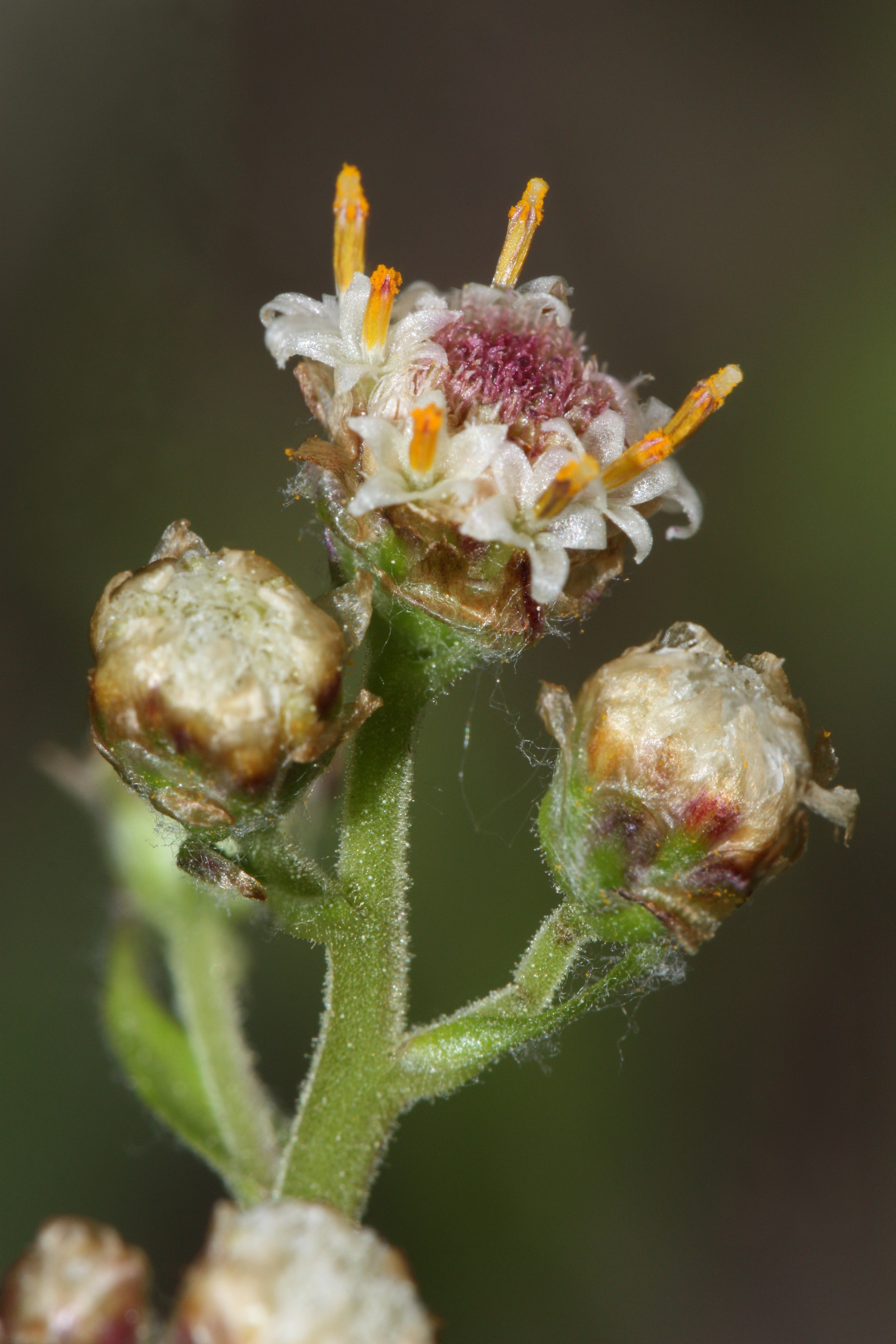 Raceme Pussytoes, Slender Everlasting, Hooker's Pussytoes; Focus stacking (using Helicon Focus).Please see "Other versions" for source images. Viewpoint location: Tronsen Ridge Trail #1204, Tronsen Ridge Viewpoint elevation: 1386 meter (4549 ft) Location source: Garmin GPSmap 60CSx Location Datum: WGS84